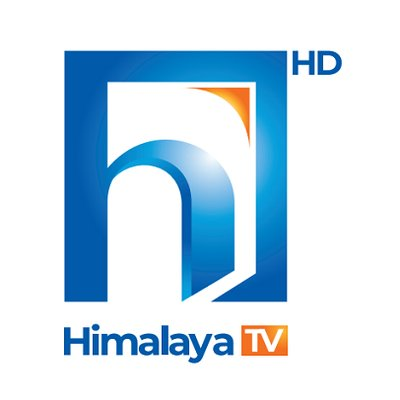 नेपाली: Himalaya television new logo 2075